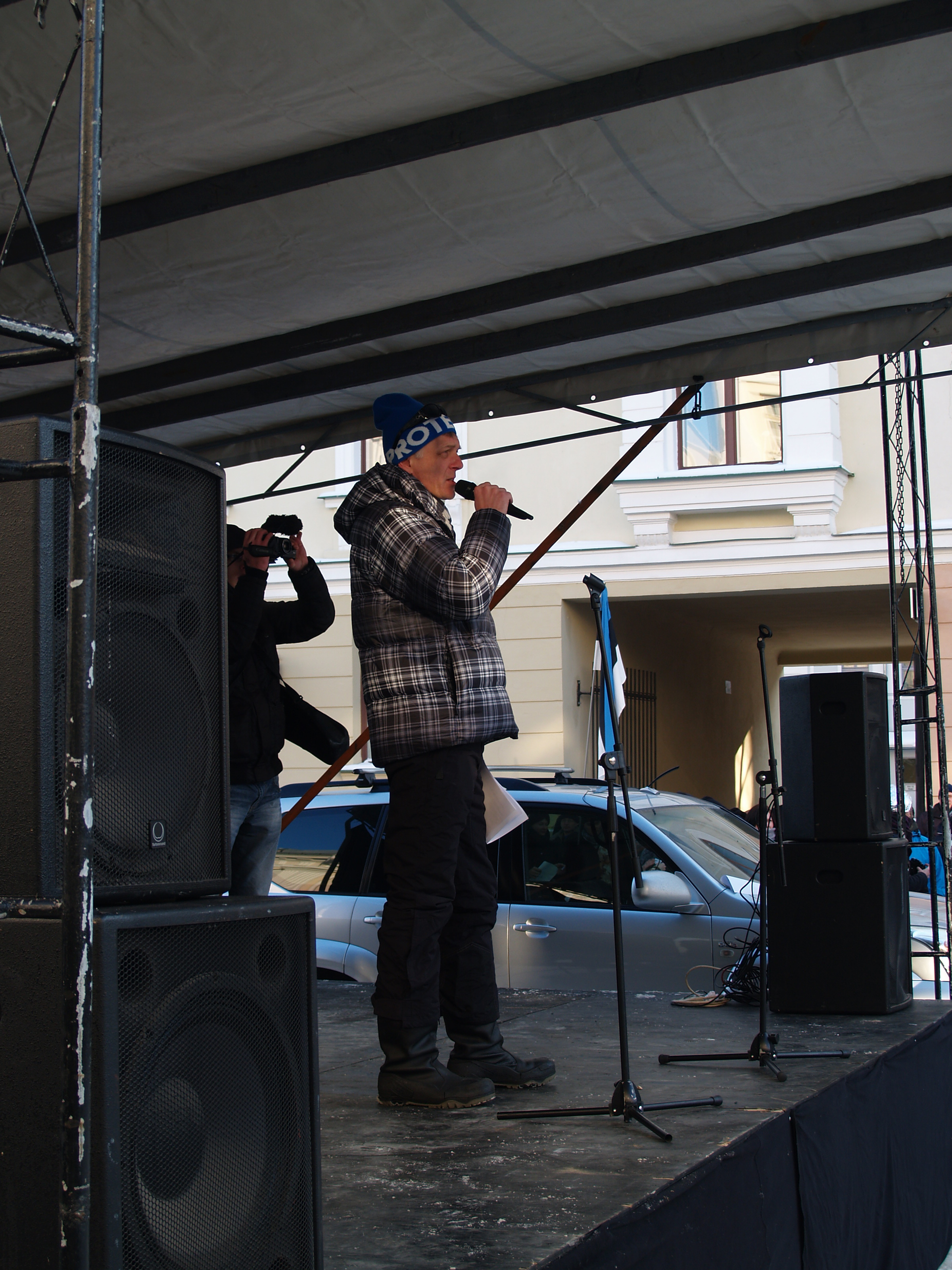 Anti ACTA demonstration in Tartu, Estonia.